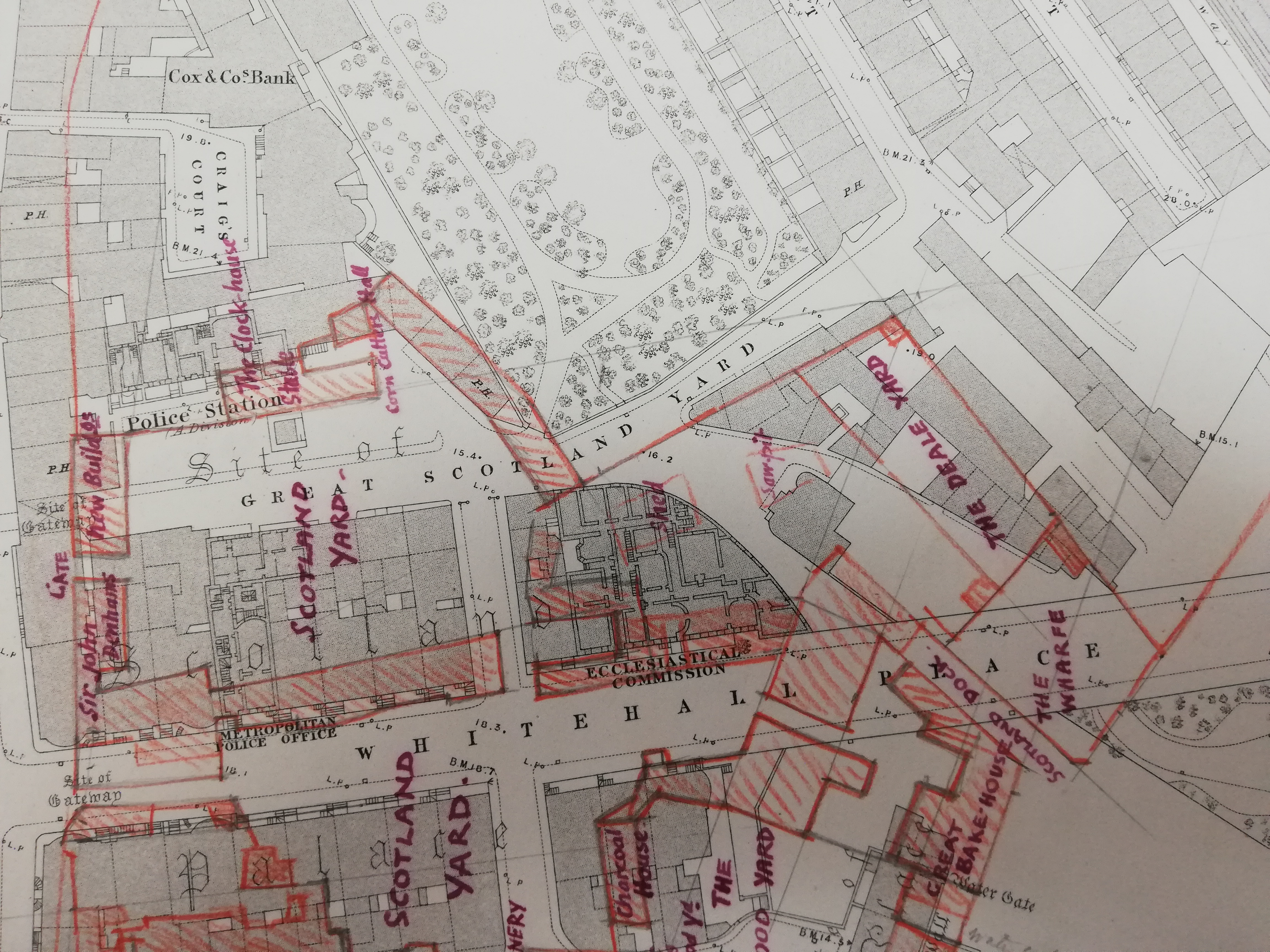 Middlesex: Westminster (now in the London City of Westminster). Whitehall: nine sheets of architectural drawings of Crown properties in Whitehall Place, and Great and Little Scotland Yards, showing proposed improvements. By Thomas Leverton